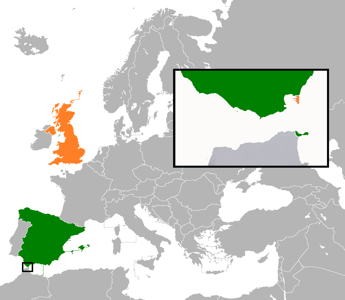 Location of Spain and the United Kingdom